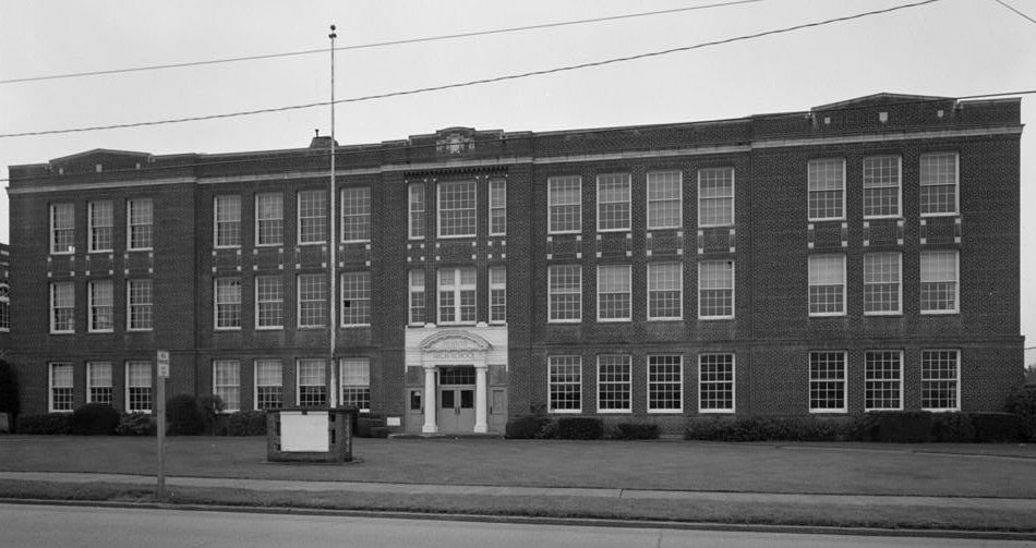 This is the old Enumclaw High School on Porter Street in Enumclaw, Washington, USA. Originally constructed in 1921, and modified in 1928, 1935, 1938. This building no longer exists; it was demolished in the 1990s.